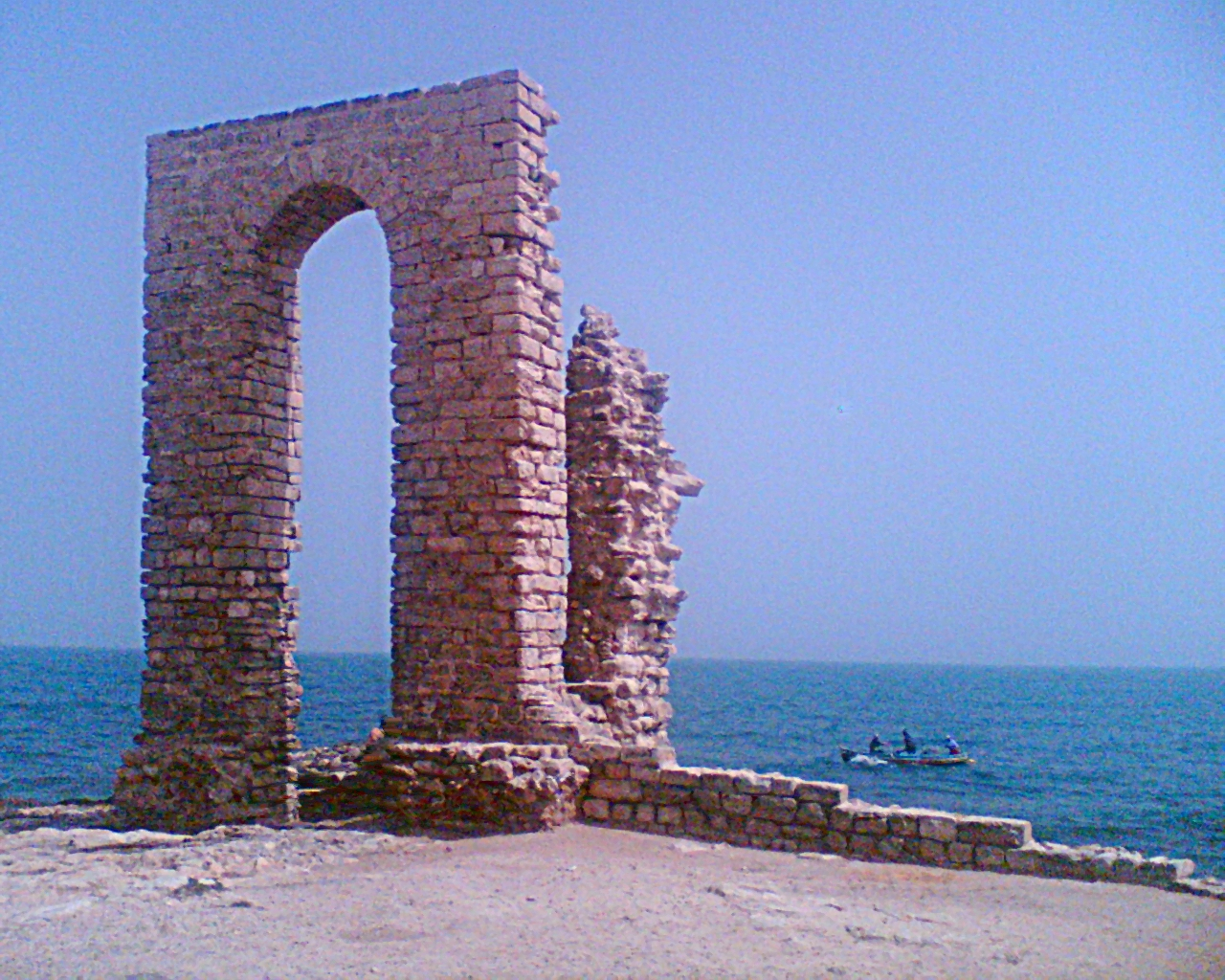 Arc near the phénicien cothon and the Maritime cemetery of Mahdia. It's represented on the Mahdia city arms